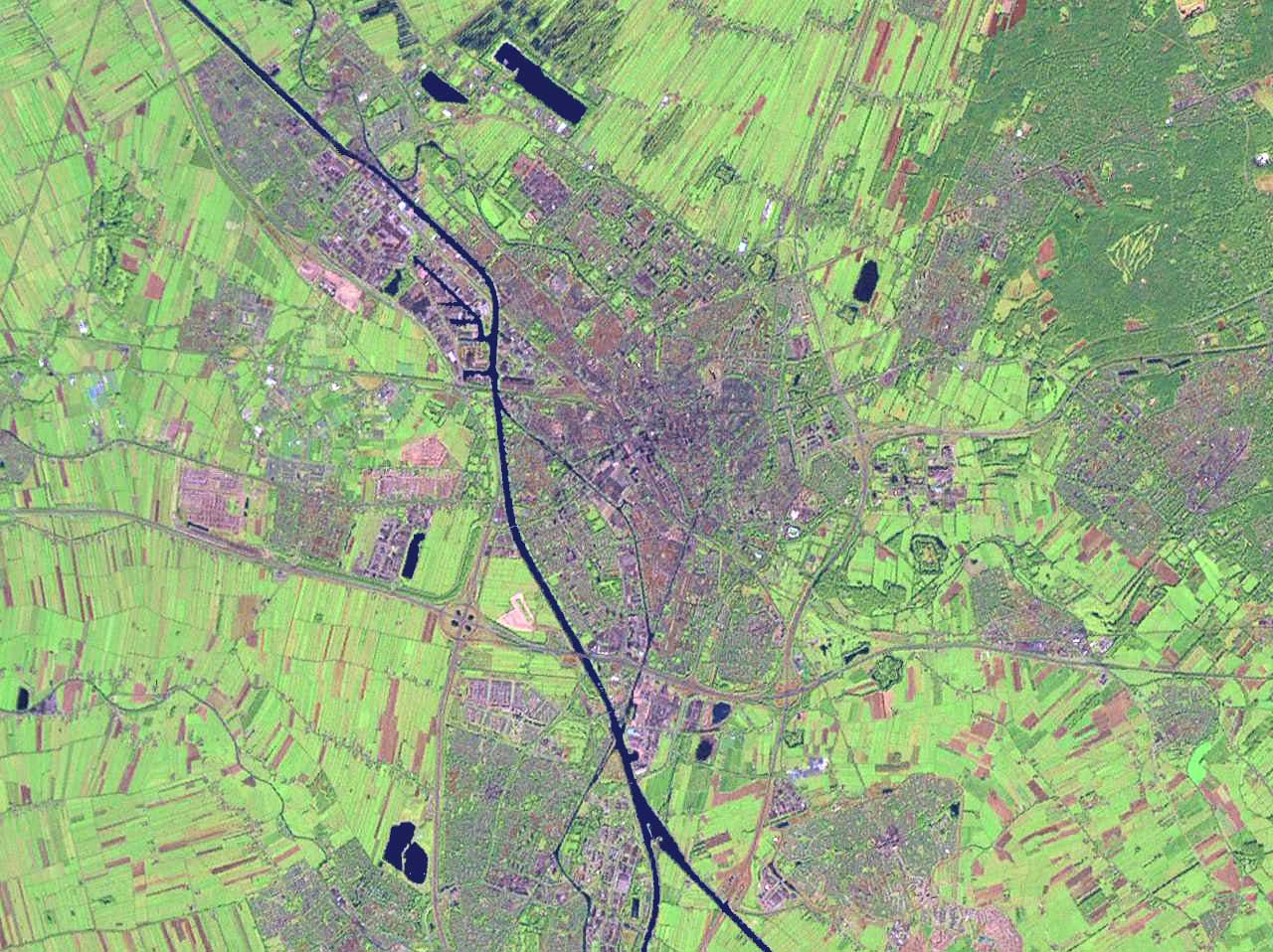 Utrecht, the Netherlands. Satellite view.